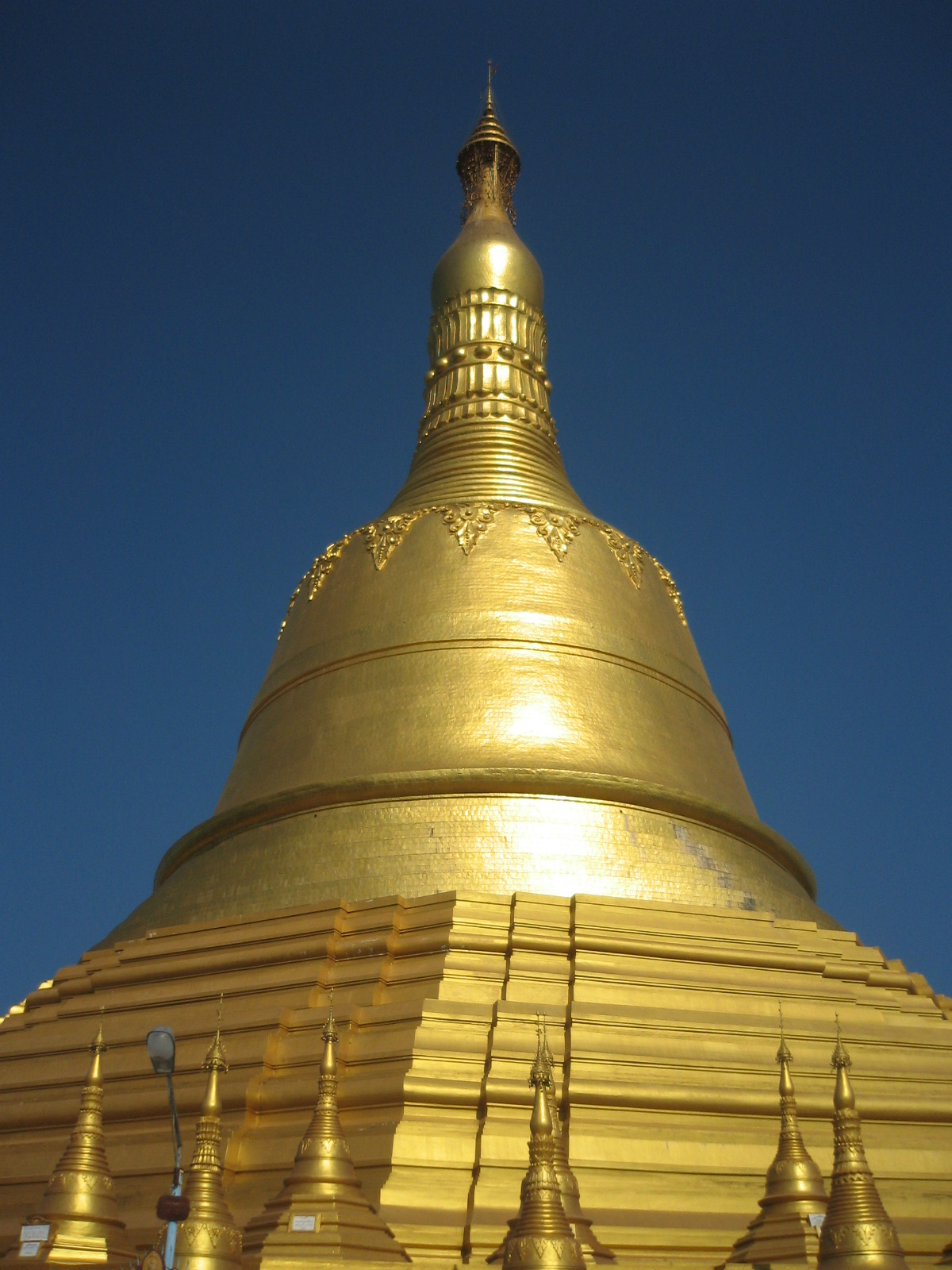 Shwemawdaw pagoda in Myanmar/Burma.